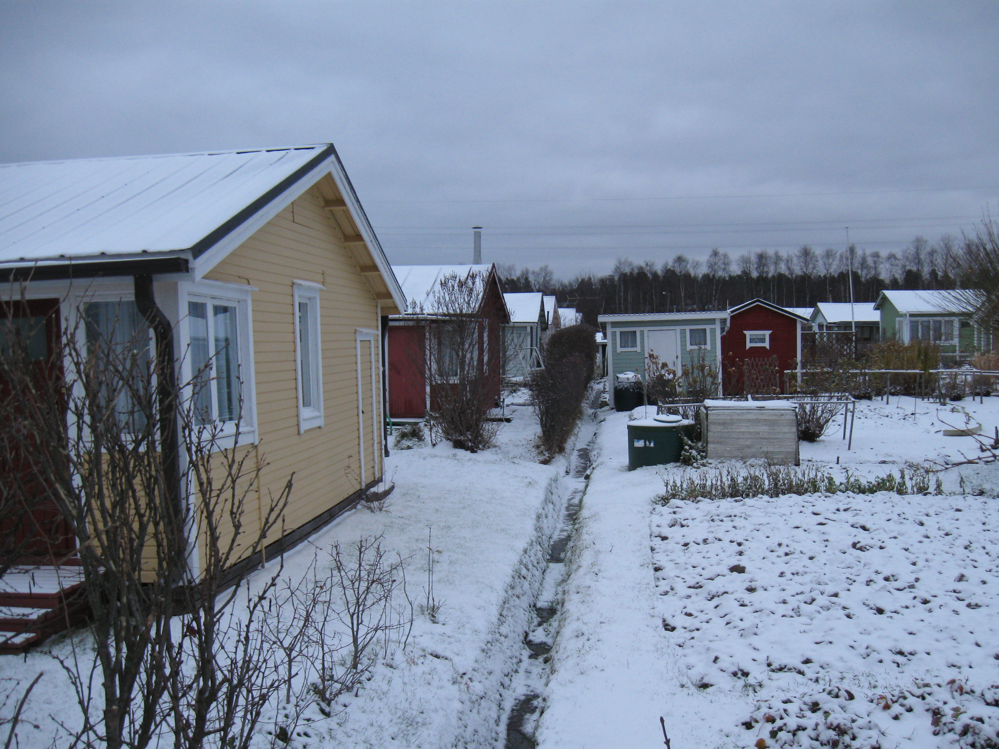 The garden allots and small cottages of Äimärautio in Oulu, Finland, in early Winter.